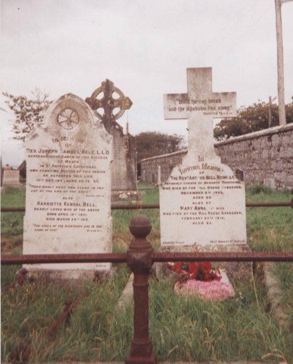 [Right] Arthur Bell Nicholls' grave in Banagher, Ireland.